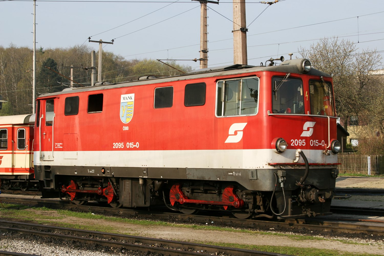 ÖBB narrow gauge diesel 2095 015-0 in St. Pölten Alpenbahnhof, center of operation of the Mariazellerbahn